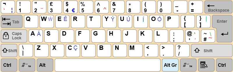 UK Extended Keyboard layout